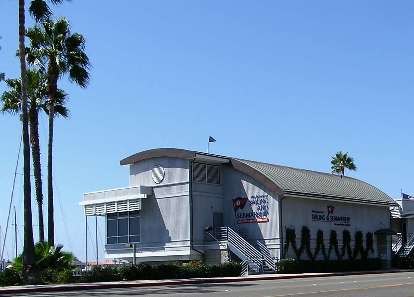 Orange Coast College Sailing Base in Newport Beach , CA.